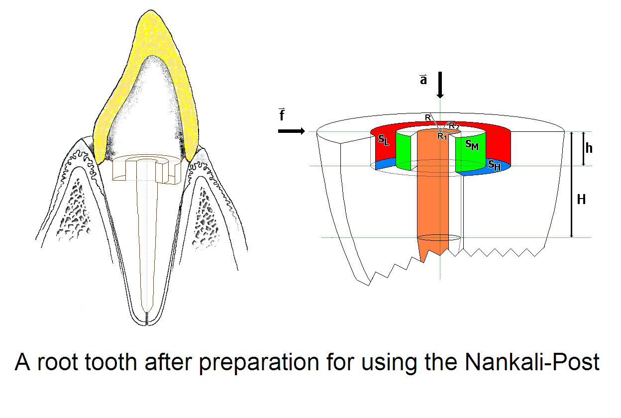 Nankali-post System-p1